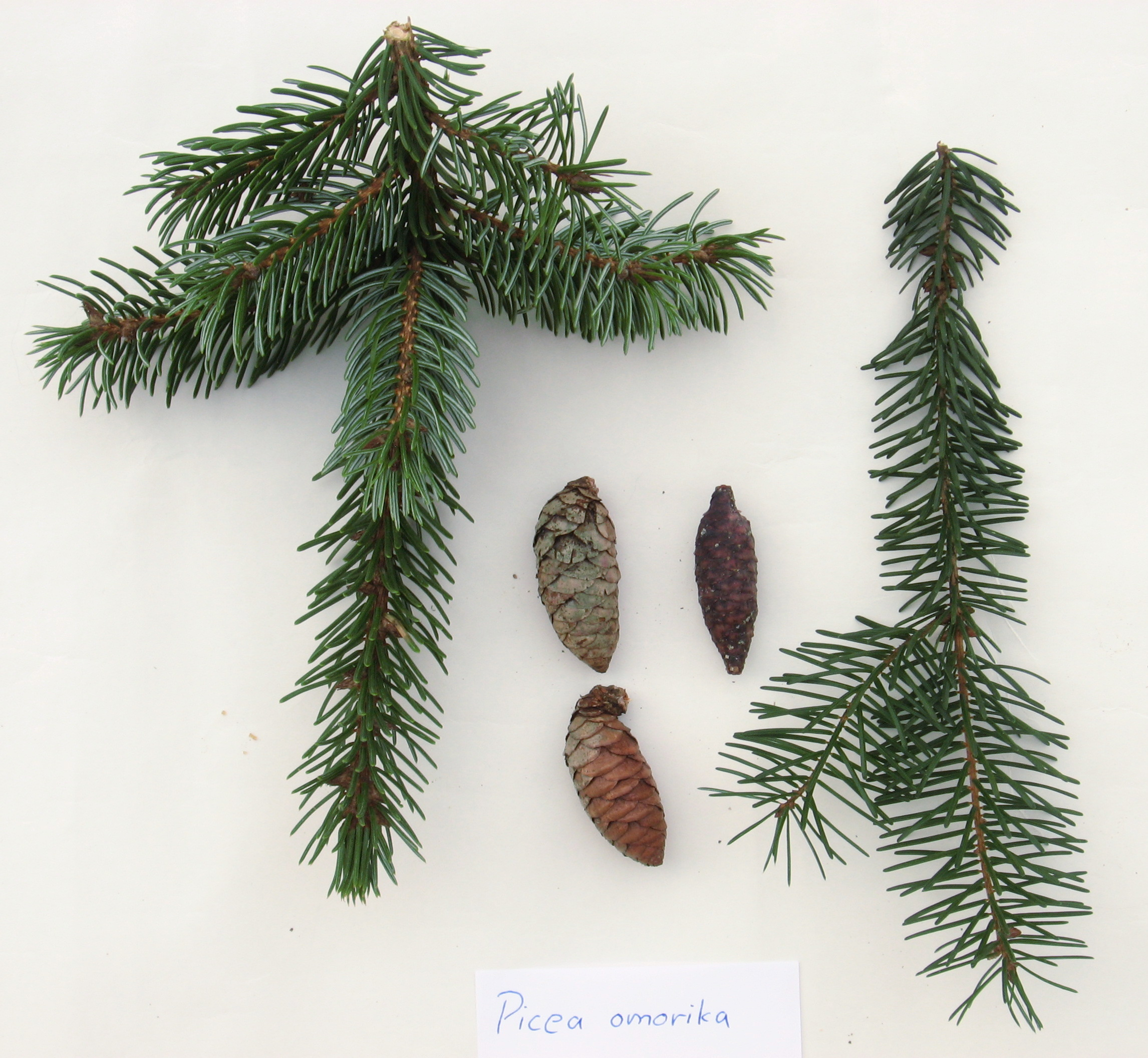 Illustriation of twigs, needles and cones of Picea omorika (Serbian Spruce). The twig on the left grew on the top in the sun, the right one close to the ground in the shadow. The grey and brown cones are ripe, the purple one is unripe